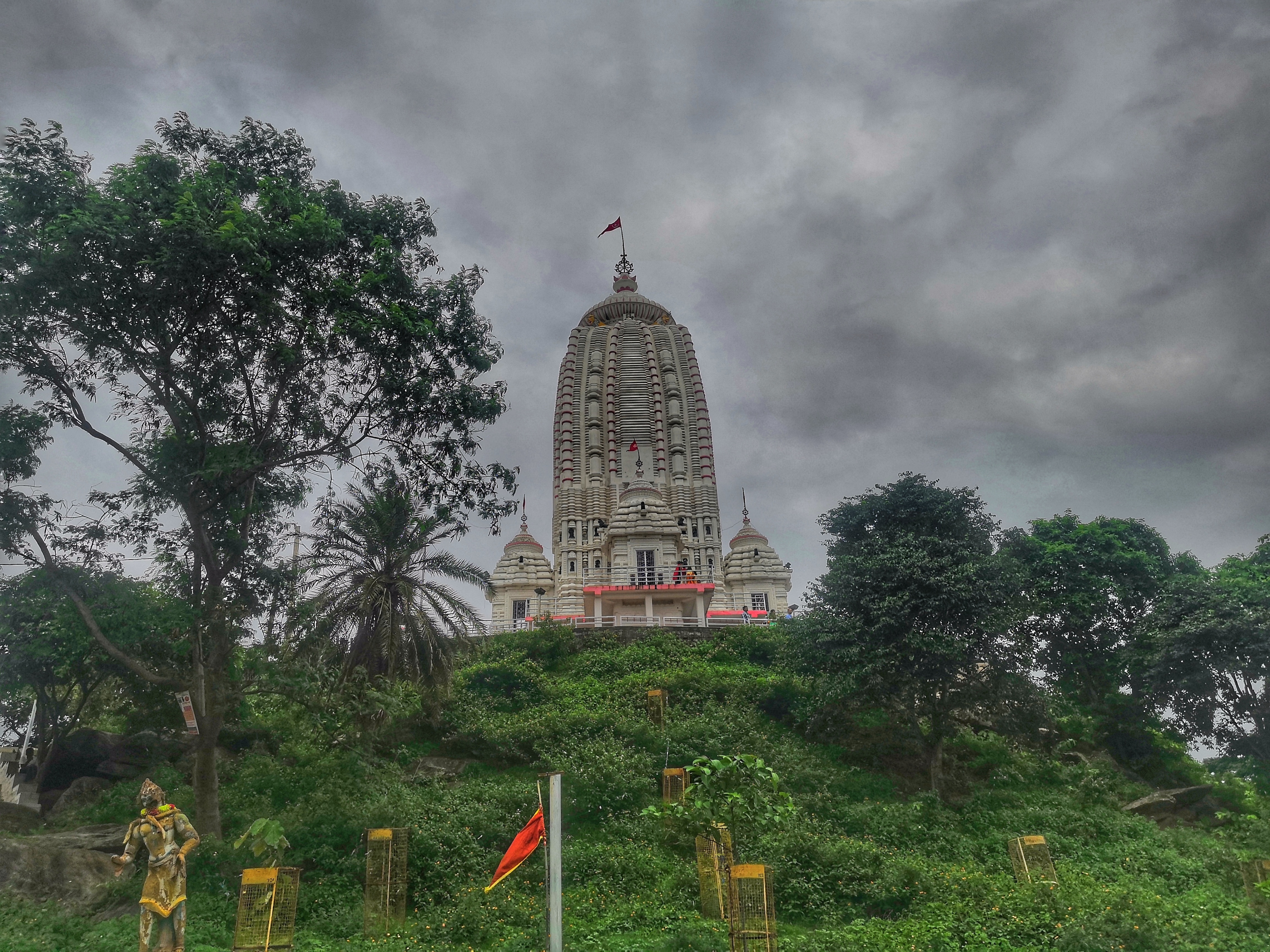 Jagannathpur Temple: A Picture from the back.